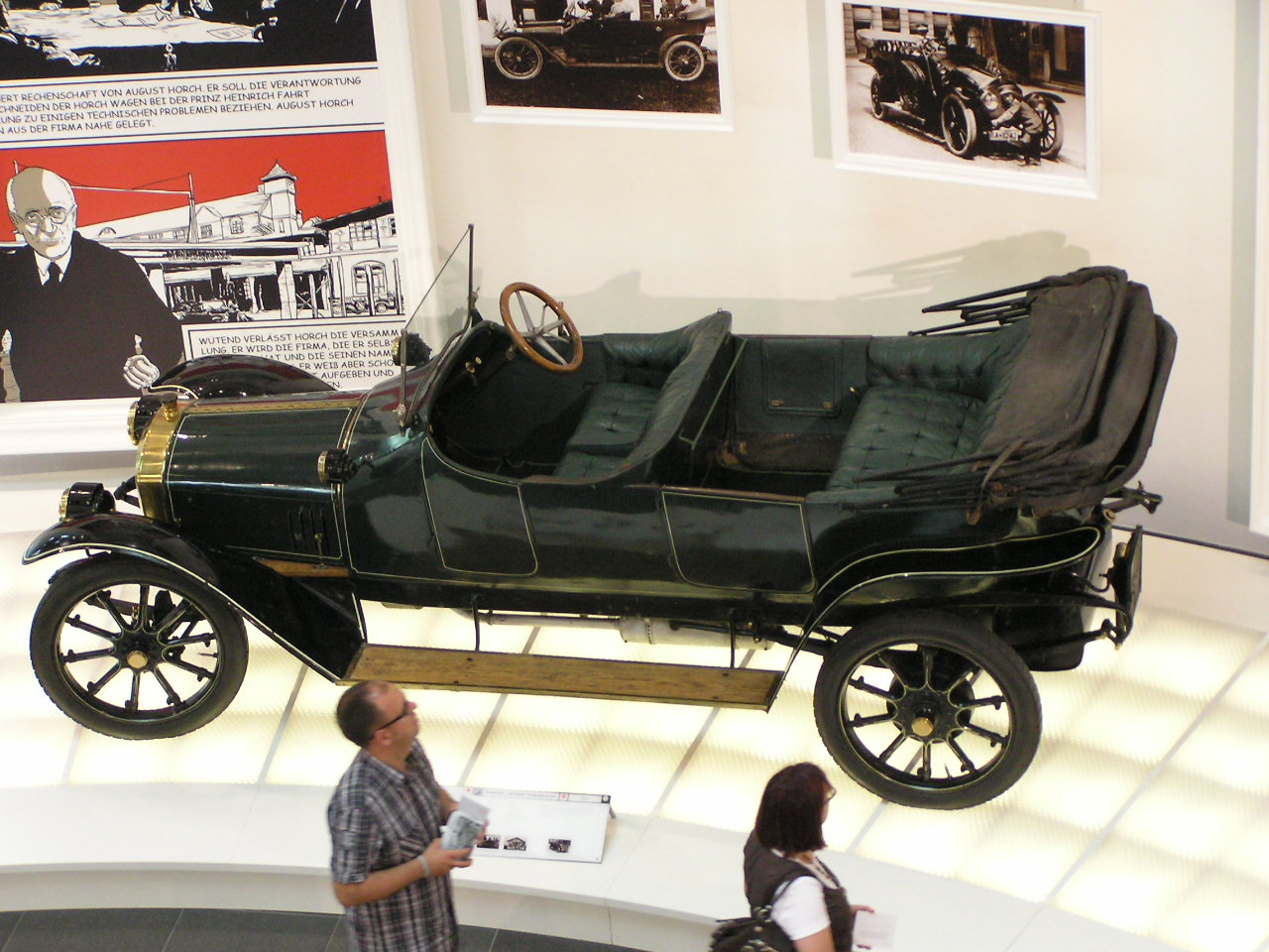 Audi Type A, top view